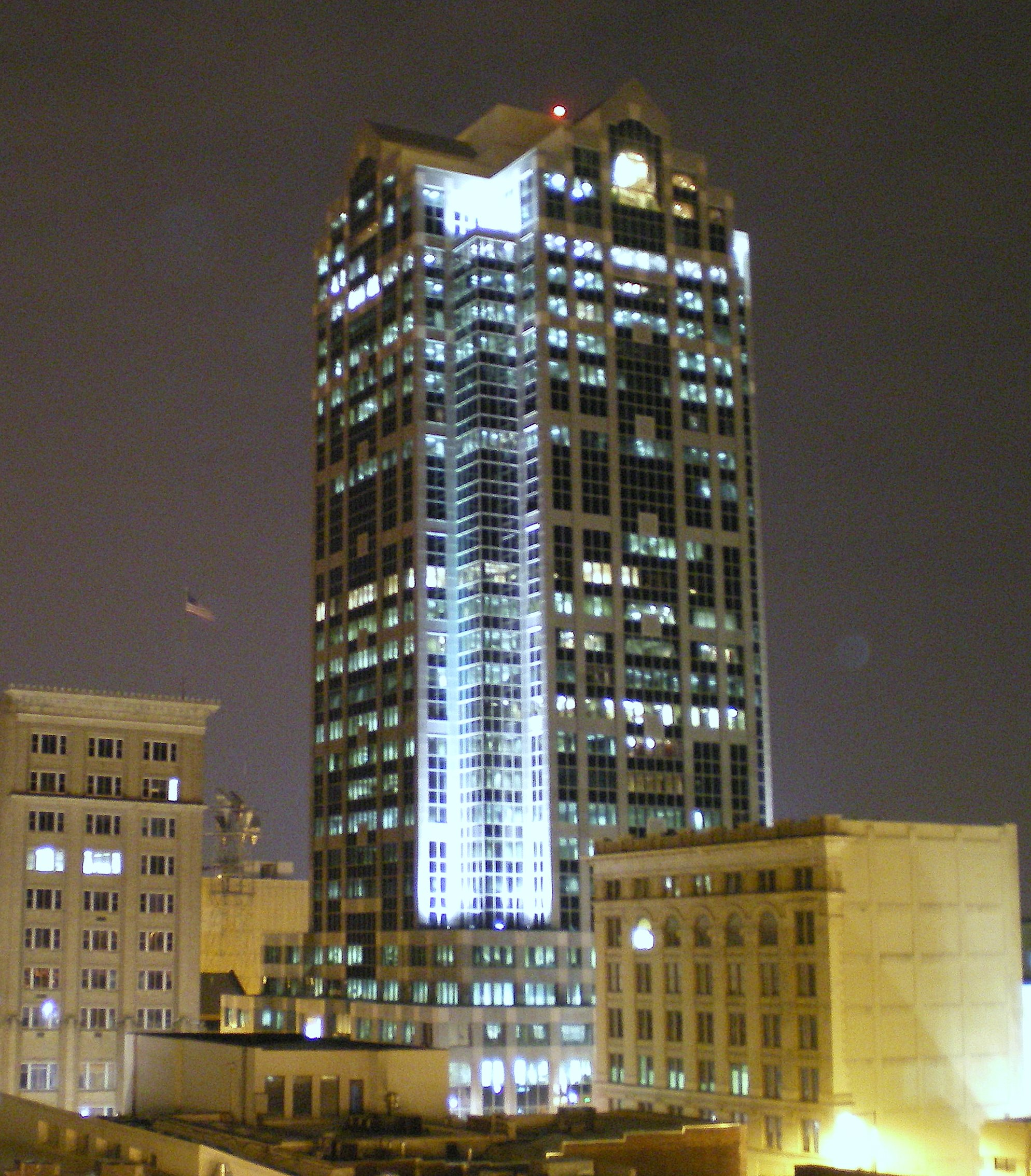 view of wachovia bank, downtown raleigh